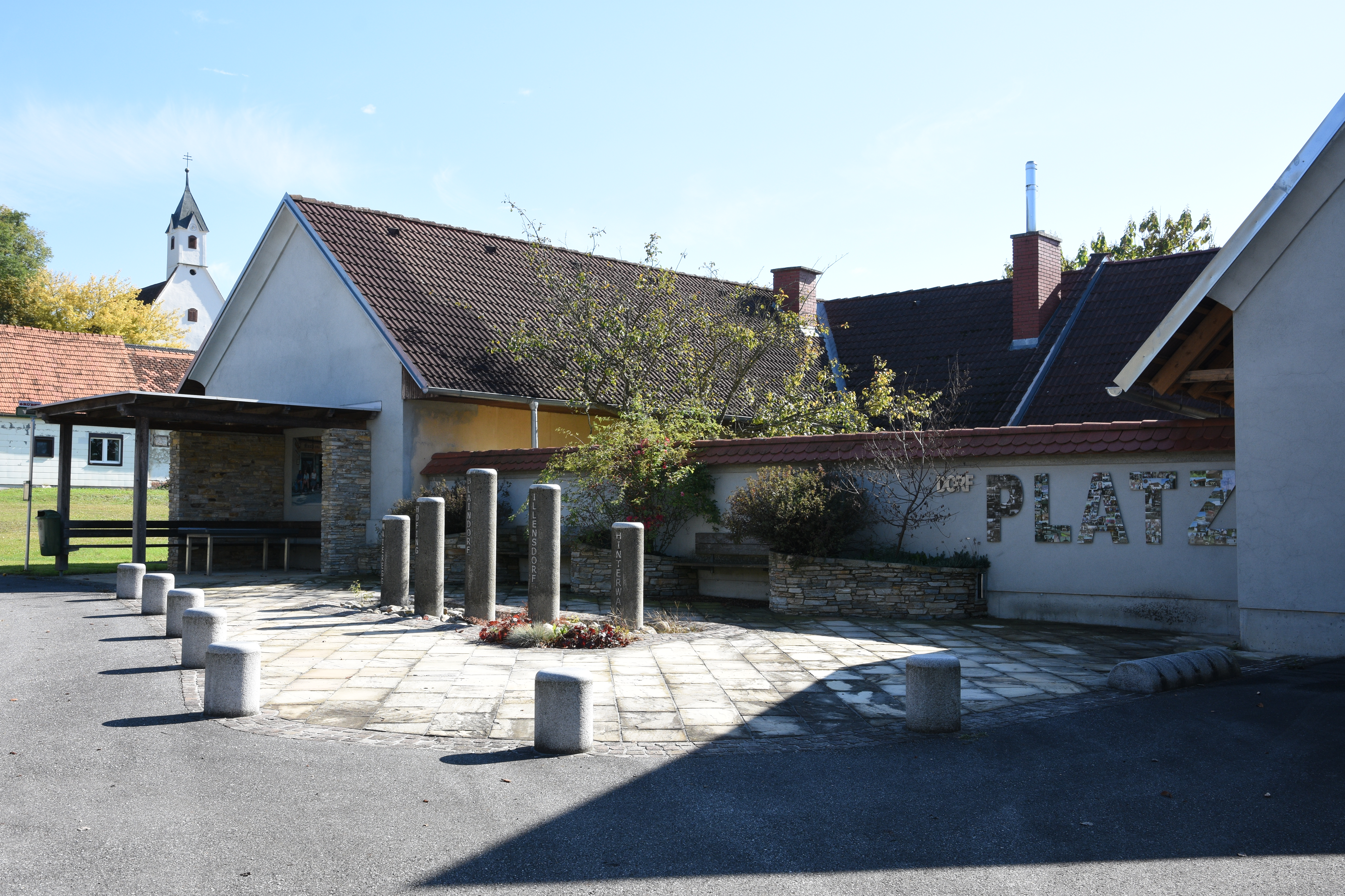 Dorfplatz in Blaindorf